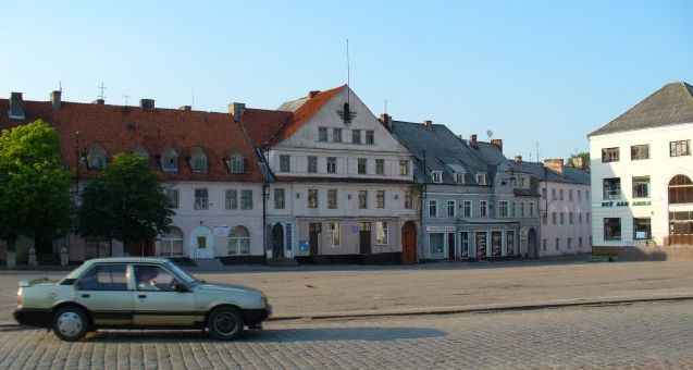 Market Place Ozyorsk